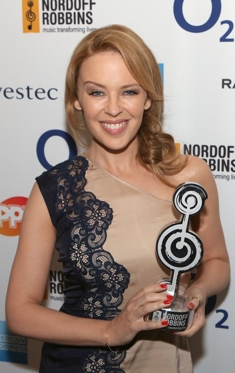 A cropped version of File:Kylie Minogue wins the Silver Clef Award 2012.jpg that focuses in on the subject.